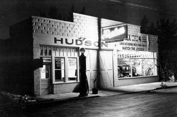 Persistent URL: Local call number: RC11241 Title: Peerless Motor Cars store at night time - Florida Date: ca. 1926 Physical descrip: 1 photoprint - b&w - 8 x 10 in. Series Title: Reference Collection Repository: State Library and Archives of Florida, 500 S. Bronough St., Tallahassee, FL 32399-0250 USA. Contact: 850.245.6700.